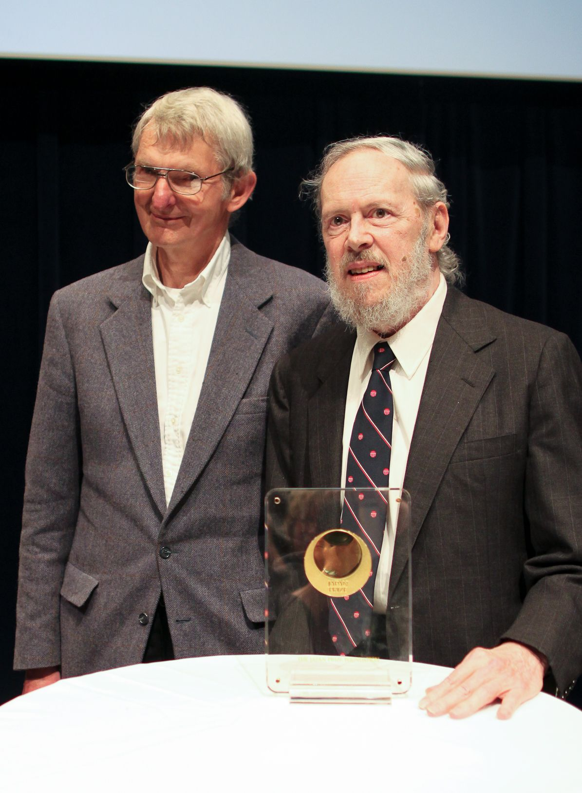 Dennis Ritchie at Japan Prize Foundation ceremony with former colleague Douglas (Doug) McIlroy in May 2011.